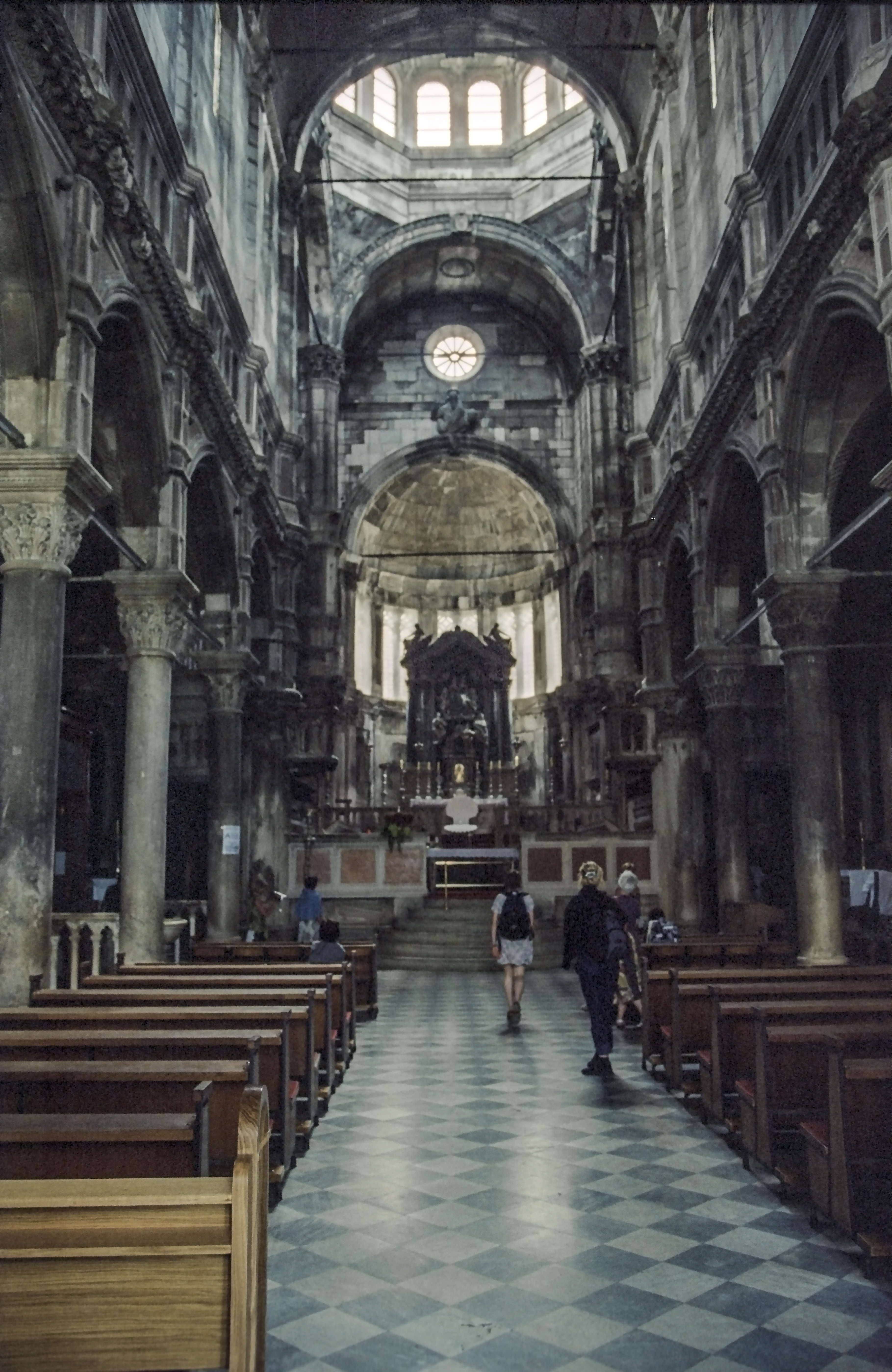 Cathedral of St. Jacob - interior, Šibenik